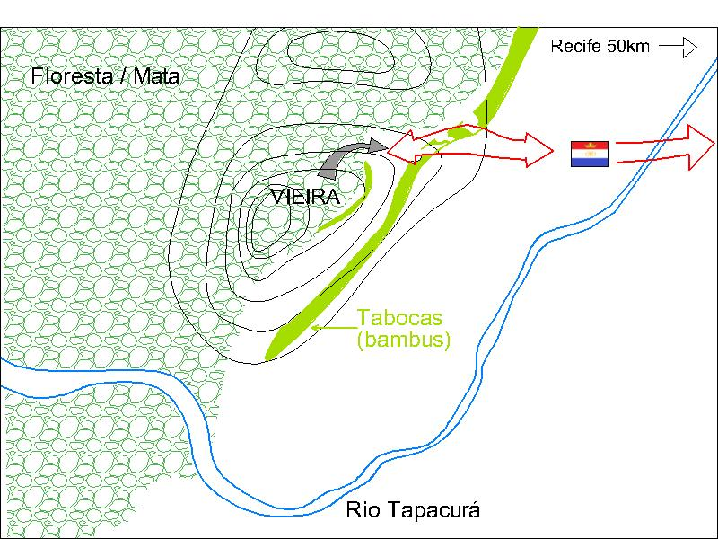 Última tentativa inimiga ao anoitecer e retirada sob chuva durante a noite.